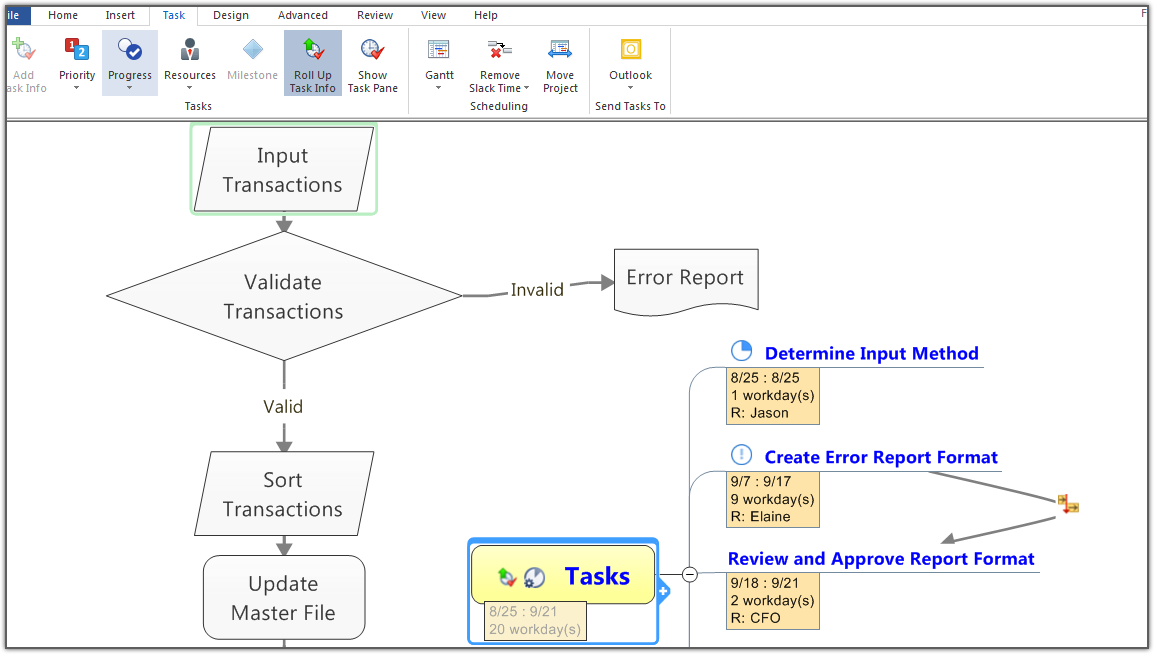 MindManager 2016 for Windows Flowchart with Tasks